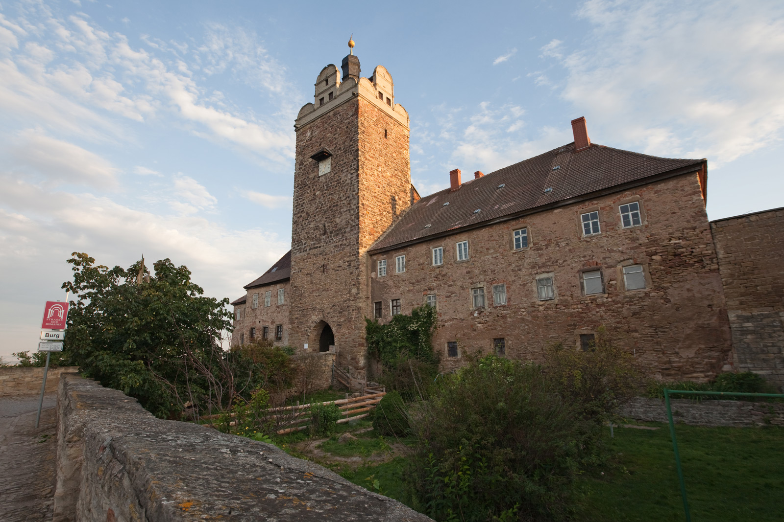 Allstedt Castle catching the early morning sun. – The picture was first published in b/w in the book "Die Südharzreise" ("The South Harz Journey"), by SuKuLTuR, Berlin, in 2010. The entire book was released under CC by-nc-sa 3.0, all pictures have been re-licensed under CC by-sa, see user page for details. – Picture taken with a Canon EOS 5D Mark II.